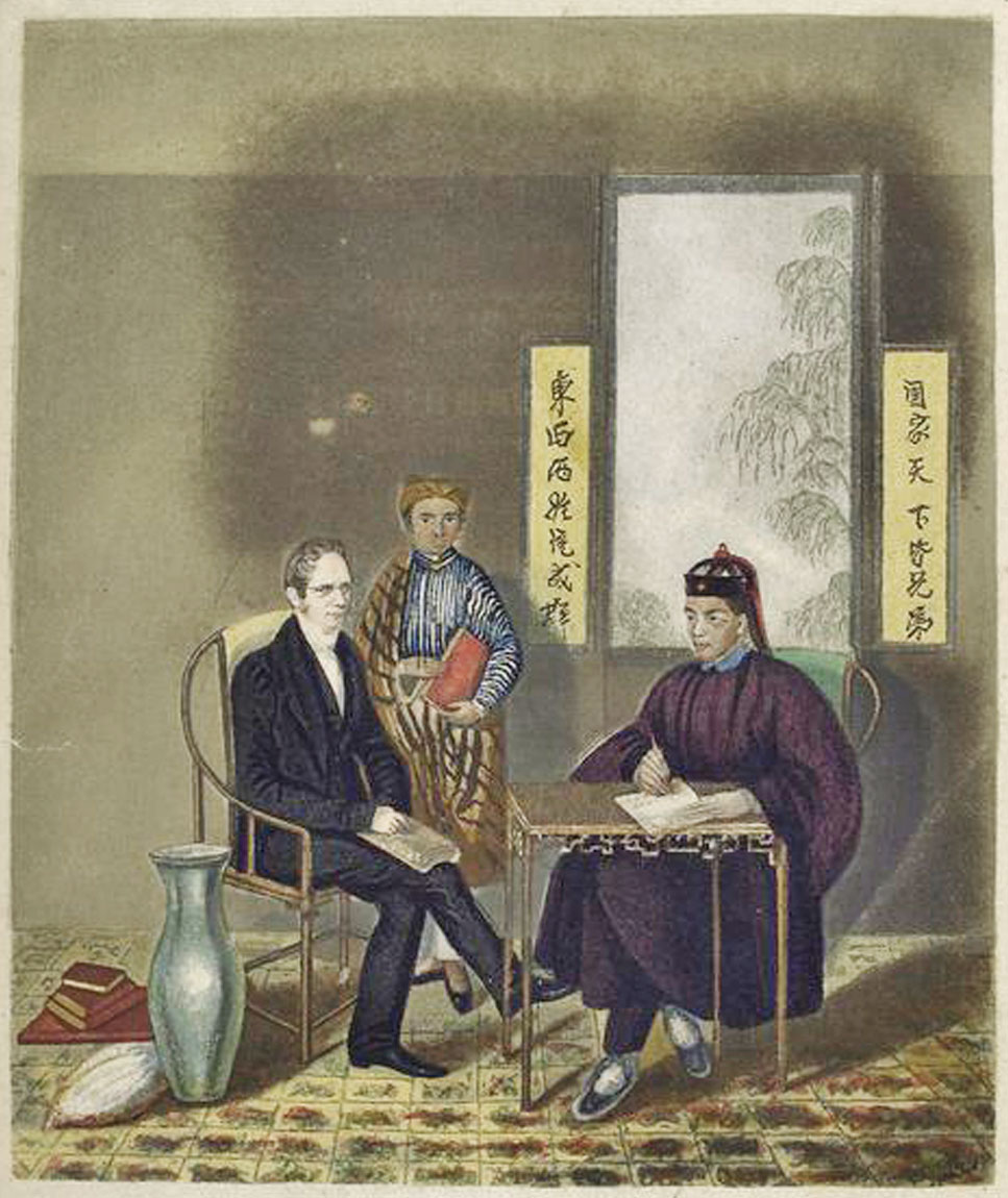 From Medhurst, Walter Henry; China: Its State and Prospects; John Snow; London 1838